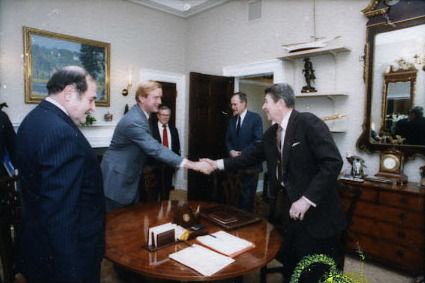 President Ronald Reagan, Mr. Burns, Mr. Weld, George Bush, Howard Baker, and A.B. Culvahouse (1A-13A) Meeting with Mr. Burns and Mr. Weld